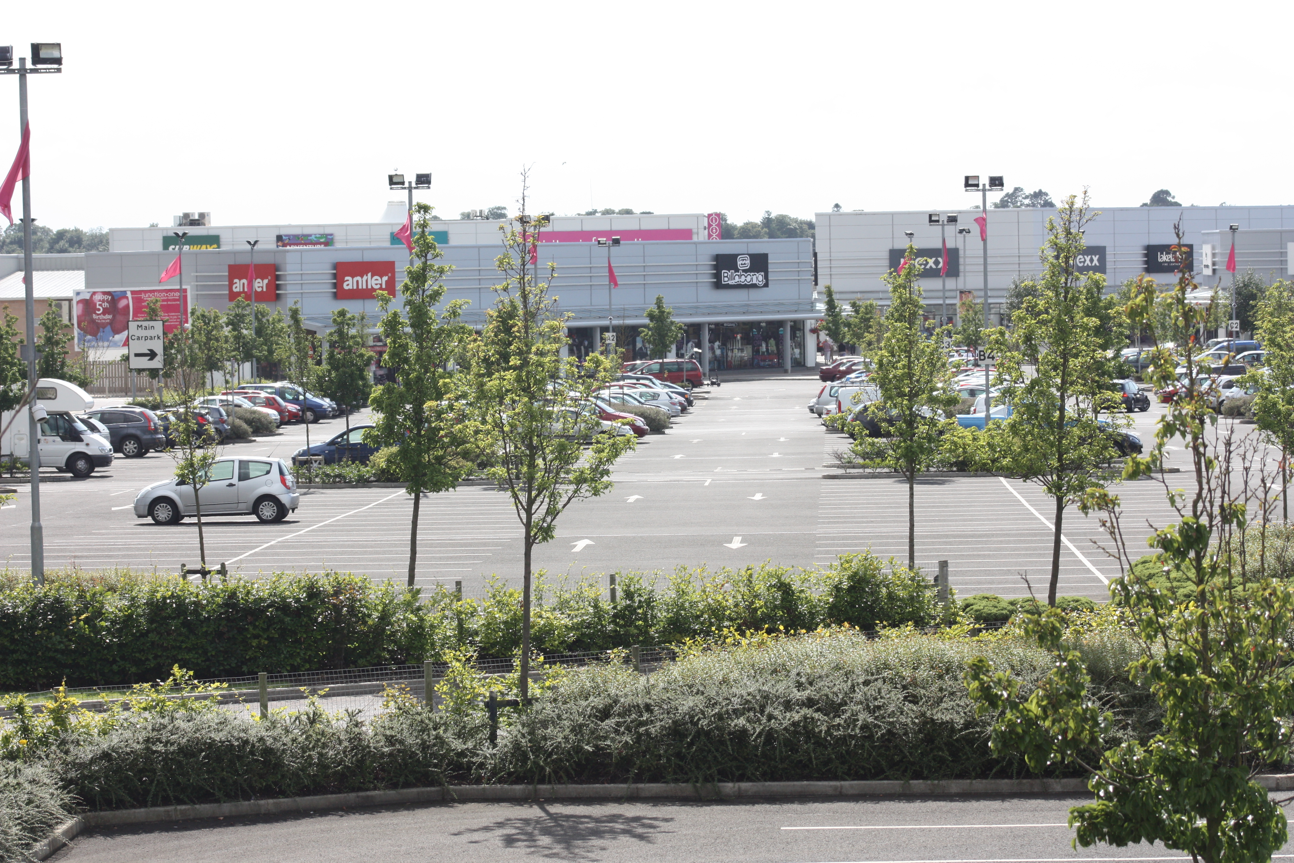 Junction One Retail Park, Antrim, County Antrim, August 2009